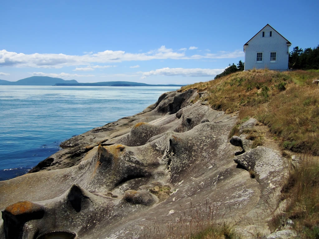 rock formations at East Point on Saturna Island, British Columbia, Canada